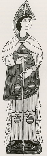 A tenth-century Spanish bishop, part of a miniature from folio 104 of the Codex Emilianensis in the Biblioteca del Real Monasterio de El Escorial.